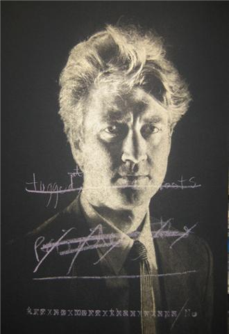 Danny Flynn print